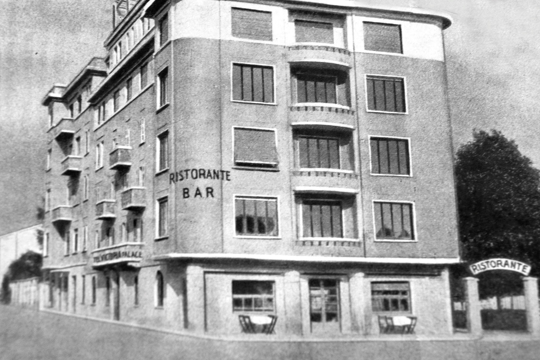 Hotel Meina after WWII. In this hotel in Meina, on the Lake Maggiore in Italy, 16 Jews were arrested and killed by the nazis in September 1943.